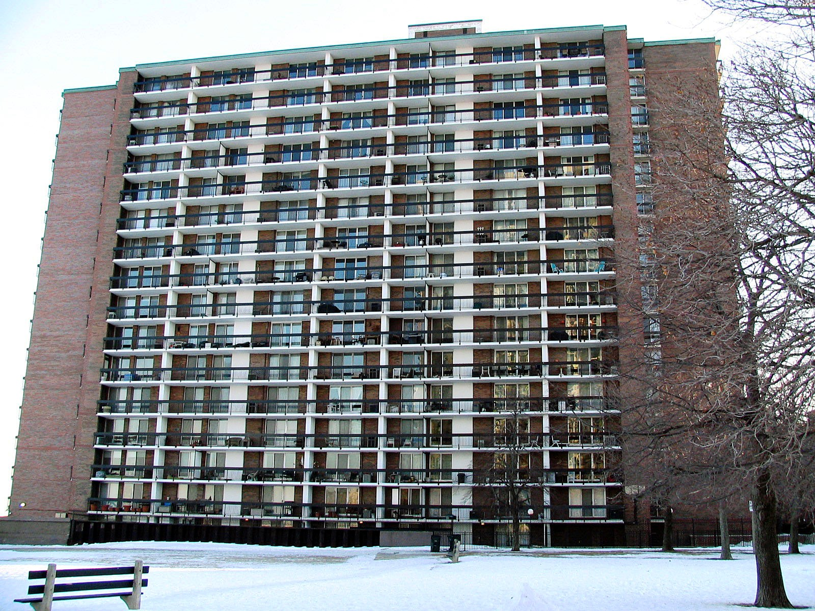 Photograph of 5901 N. Sheridan Road - Building used as site of Hartley apartment in Bob Newhart Show